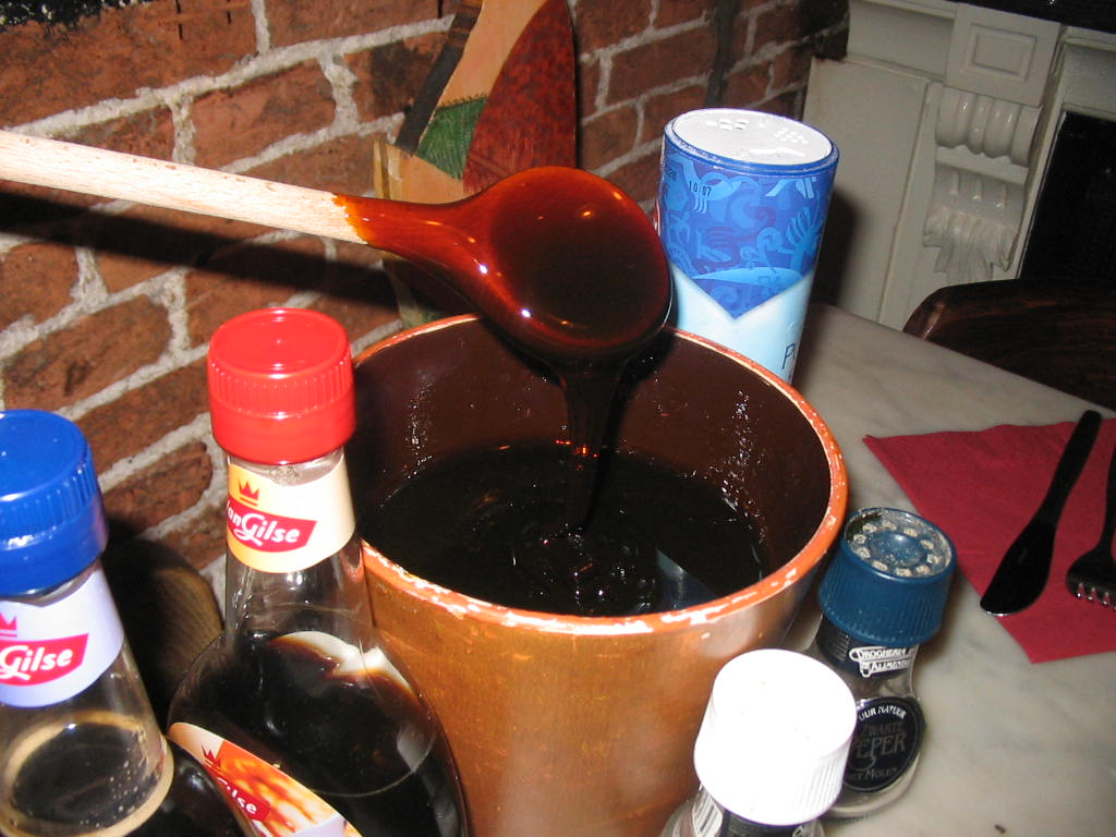 Syrup made of sugar (usually beetsugar), Netherlands